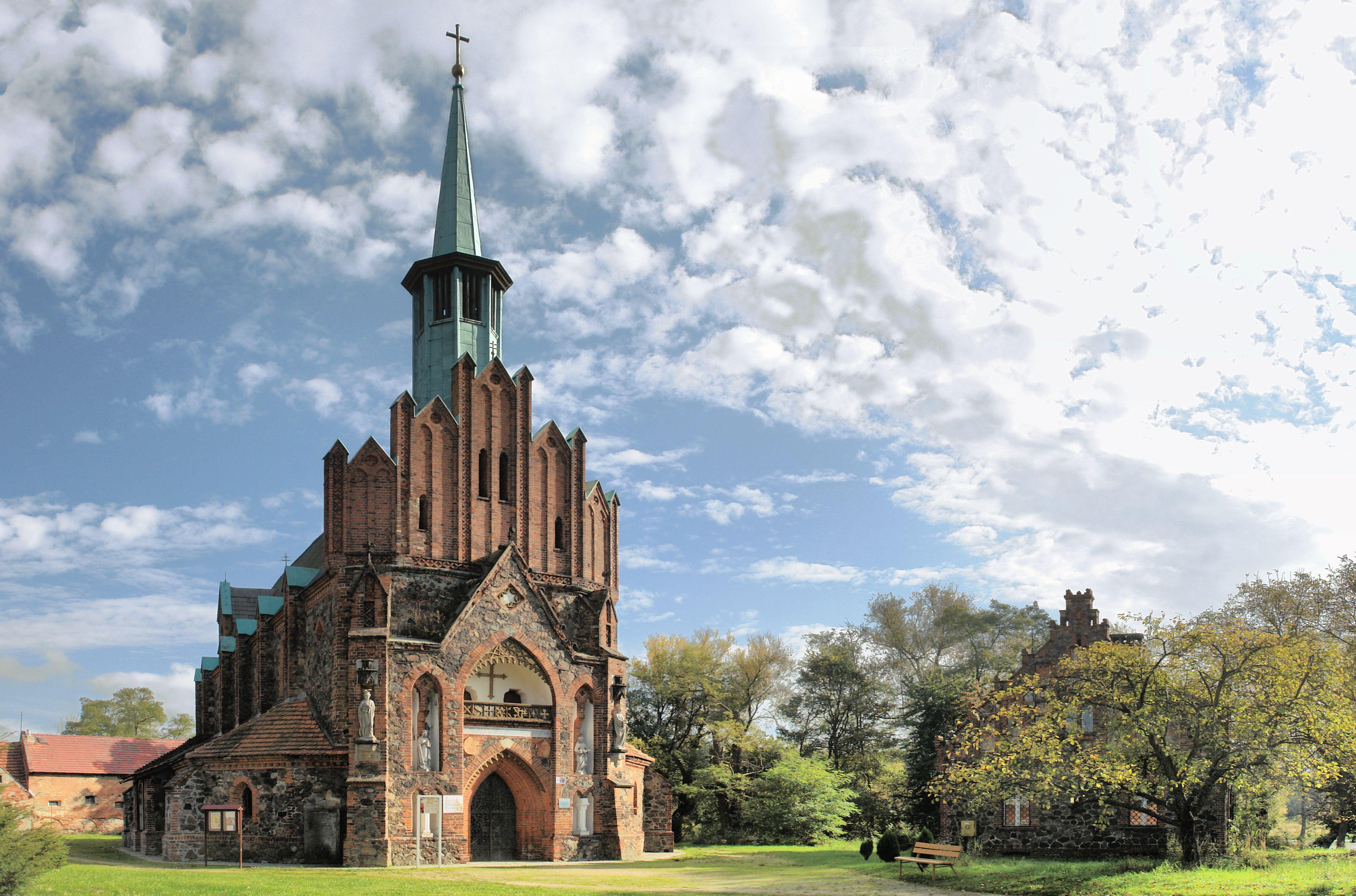 Holy Cross Church in Żagań where Princess Dorothea of Courland is buried